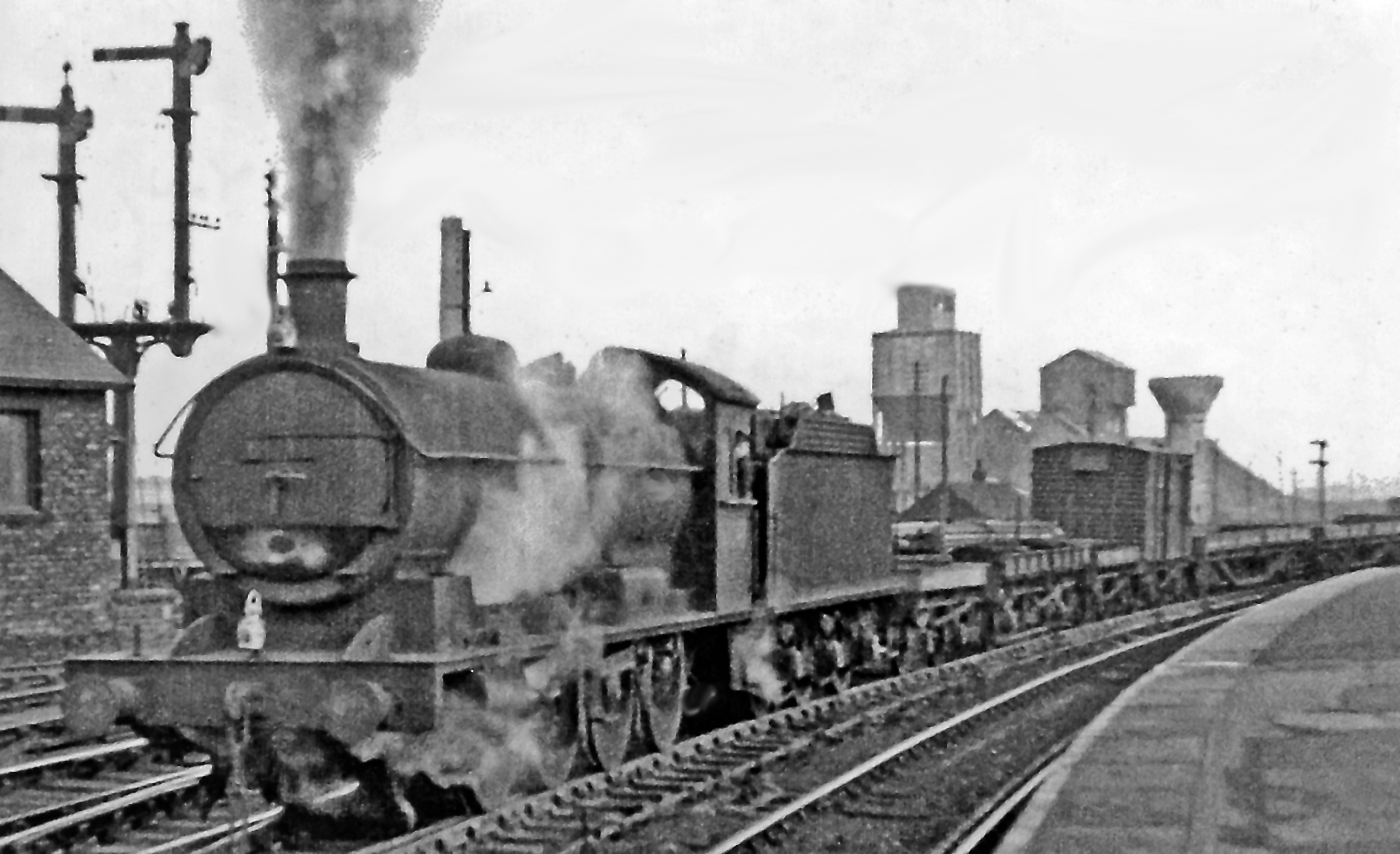 Up freight from Newport Yard typically being thrashed out through Thornaby station by a NER 0-8-0. View eastward from Thornaby station, towards Newport Yard, Middlesbrough, Saltburn, North Yorkshire. Locomotive crew are believed to have been paid bonuses in this District, based on distance moved as well as the normal hours of work, so they drove their engines flat-out and Thornaby was a marvellous spot to see pyrotechics. Nevertheless these ex-NER Raven 0-8-0s thrived: here No. 63347 (pre-1946 No. 1254, built 3/13, withdrawn 10/65) is thrashing westward on a Class H train consisting mainly of flat-wagons conveying steel slabs from the great Tees-side Dorman-Long etc. Works. (See also NZ4518 : Up freight from Newport Yard typically being thrashed out through Thornaby station by a NER 0-8-0).